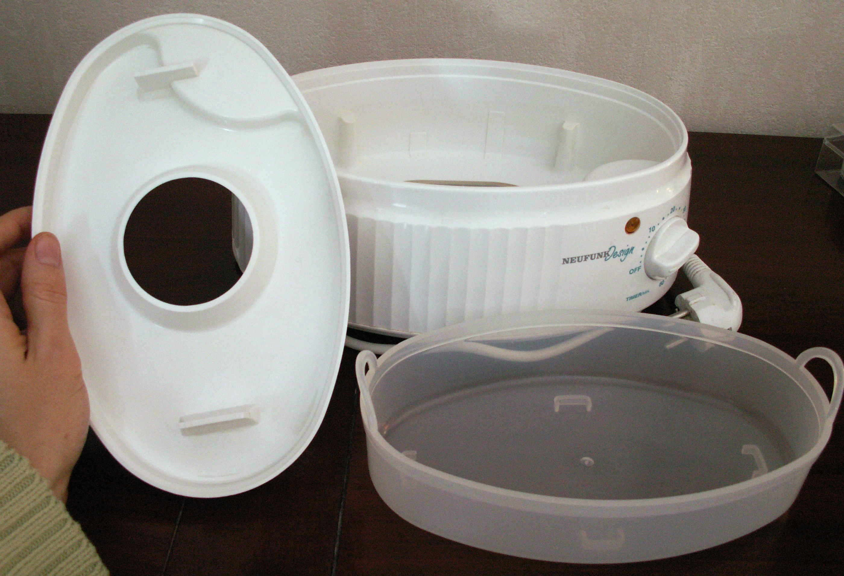 A condensation (juice) catchment, which allows all nutrients from the prepared food to actually be consumed